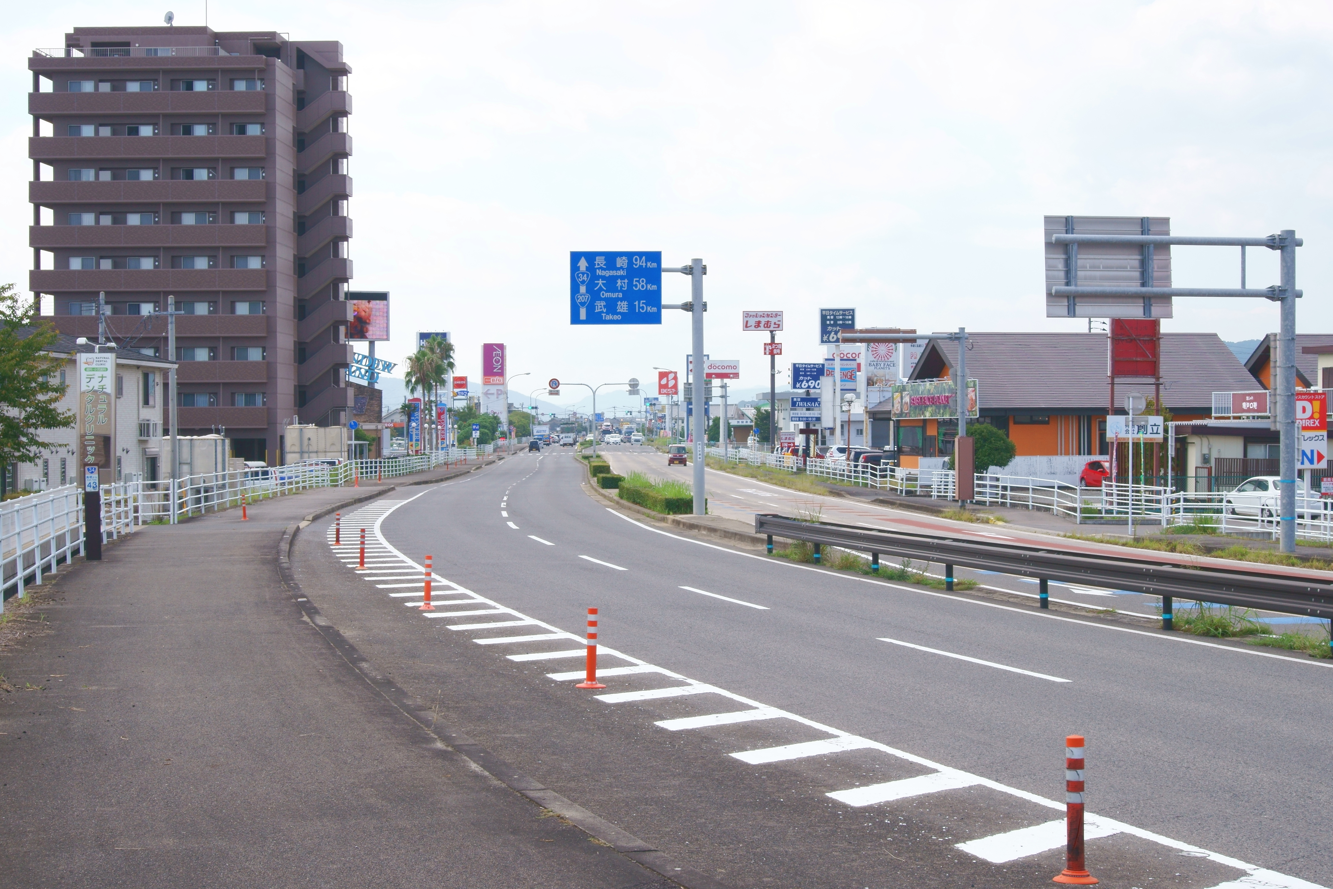 "Kōhoku Bypass" of Japan National Route 34 and Route 207, in Sarushi, Kohoku town, Saga prefecture.